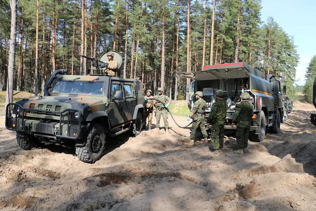 Italian Army - 1st Bersaglieri Regiment: Lince vehicle in Latvia being refueled by Canadian soldiers as part of NATO's Enhanced Forward Presence, August 2019